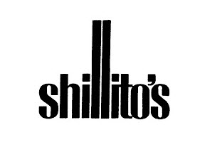 Logo of defunct store Shillito's